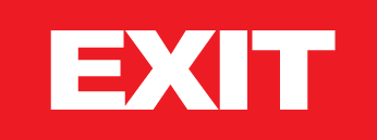 Logo of the EXIT music festival